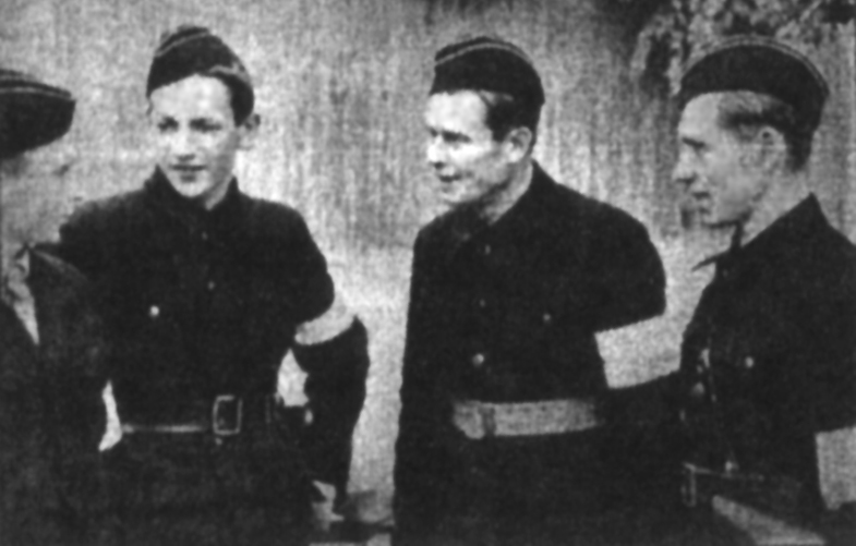 Belarusian Auxiliary Police Battalion Siegling, formed by Nazi Germany from members of collaborationist Bataillon 57 (ukrainische), Bataillon 60 (weißruthenische), Bataillon 61, 62, 63 (ukrainische), and Bataillon 64 (weißruthenische). — C. Alexandre T. Zorzetti, Almanaque dos Conflitos, Grupos paramilitares bielorrussos colaboracionistas - III Reich.Note: As a matter of course, the indigenous Belarusian Auxiliary Police were given black uniforms from the pre-war German SS stock which was no longer used and kept in storage. The black uniforms of the former Allgemeine-SS including their characteristic cuffs, and field caps, were stripped of German insignia and given to Schutzmannschaft to use with their own new patches. The same surplus uniforms utilized by Belarusian Auxiliary Police were also worn by the Ukrainian Auxiliary Police in Reichskommissariat Ukraine Because of that, the presence of local police becomes recognizable also in photographs of mass executions.